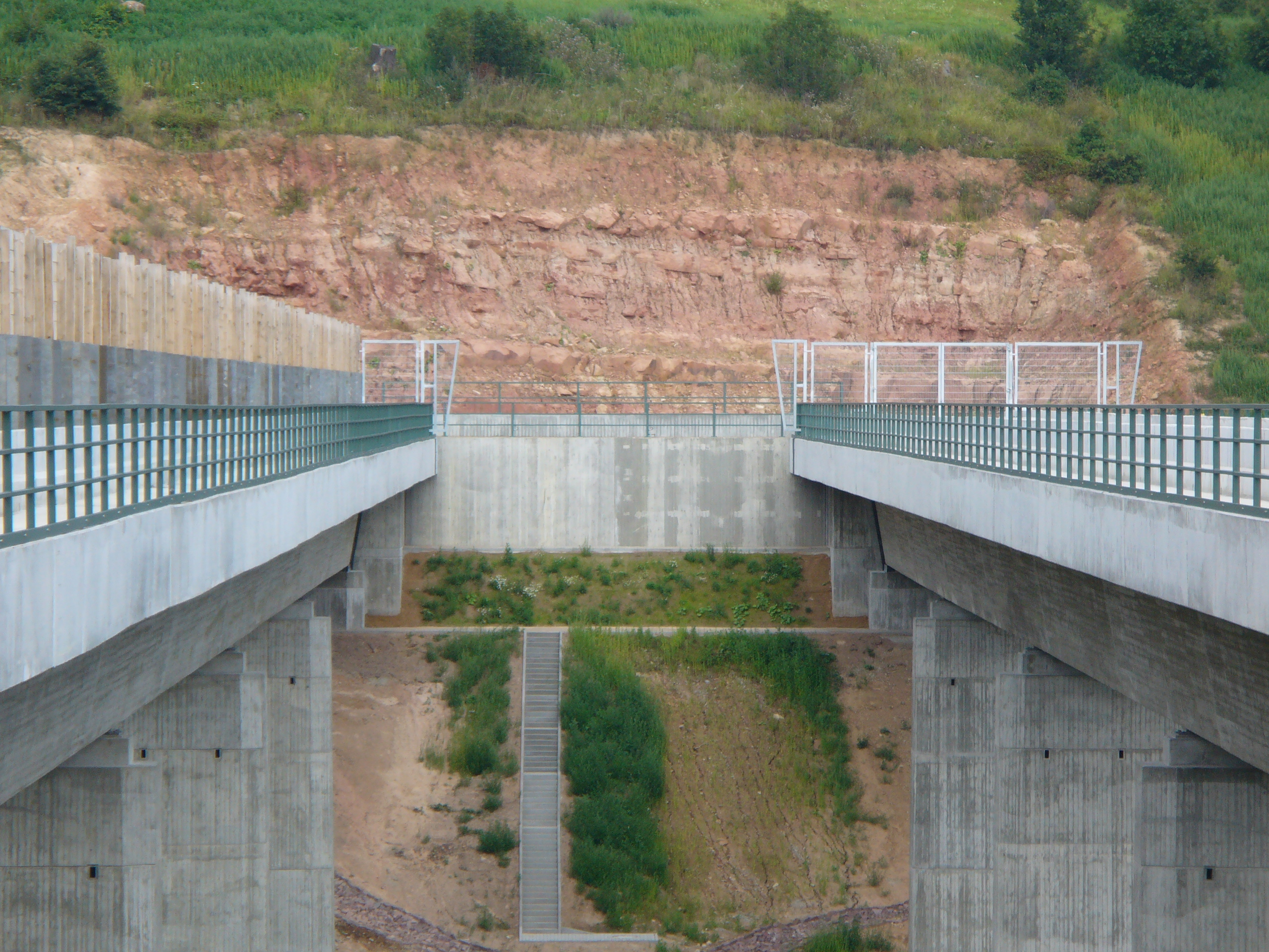 The future west portal of the Bibra Tunnel